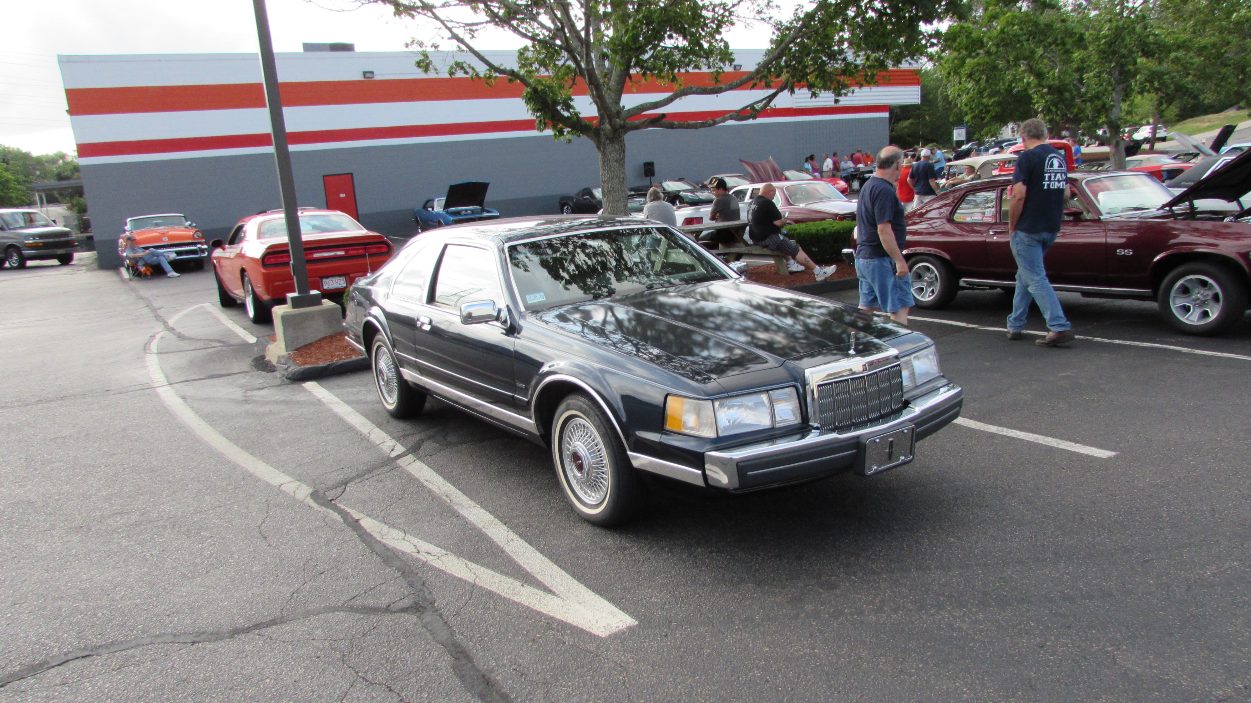 1988 Lincoln Mark VII at a cruise night.